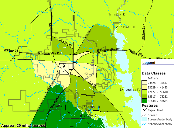 Denton, Texas 1999 median income.png